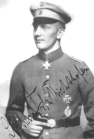 Lothar von Richthofen